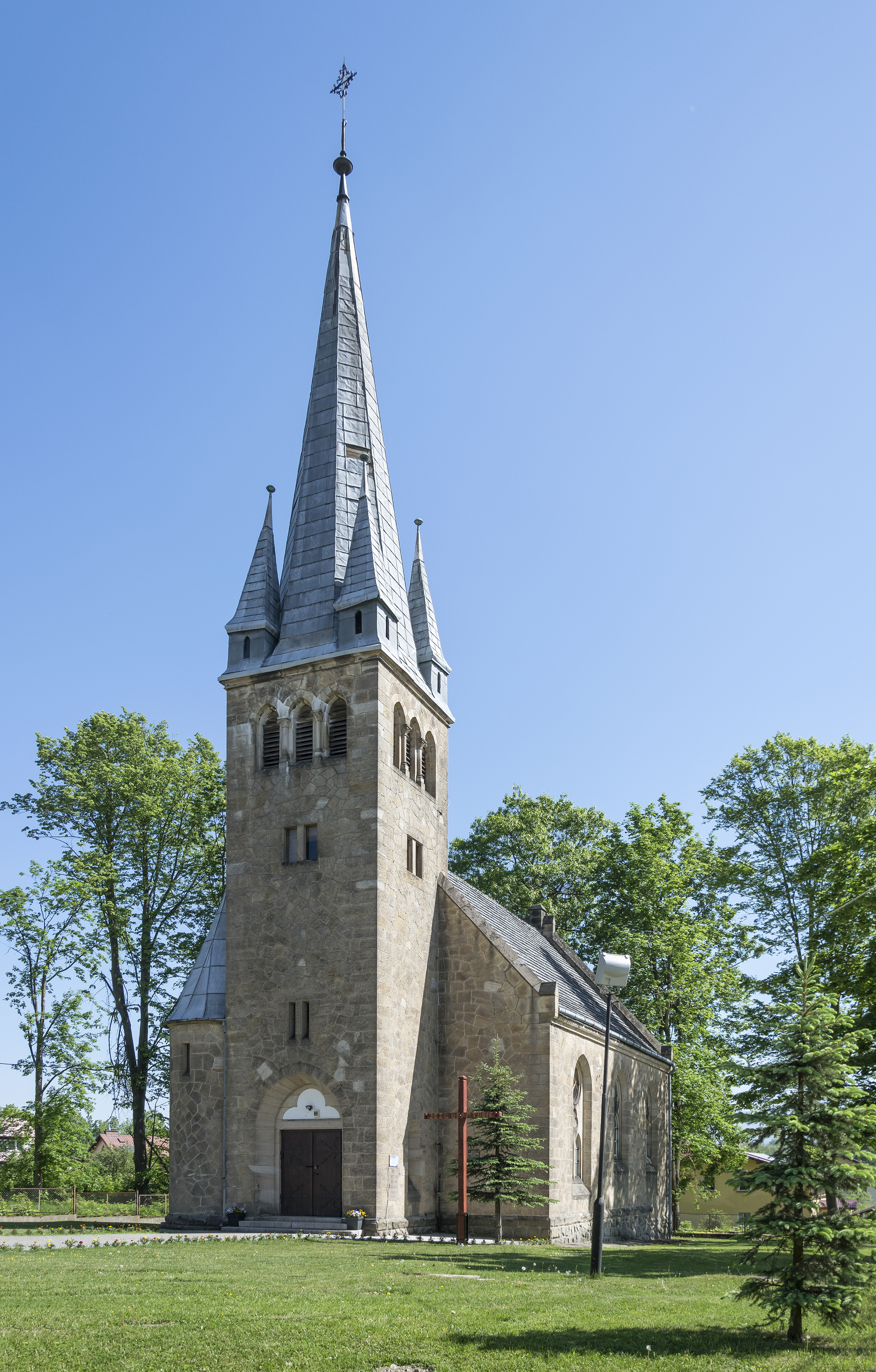 Saint John Paul II church in Międzylesie